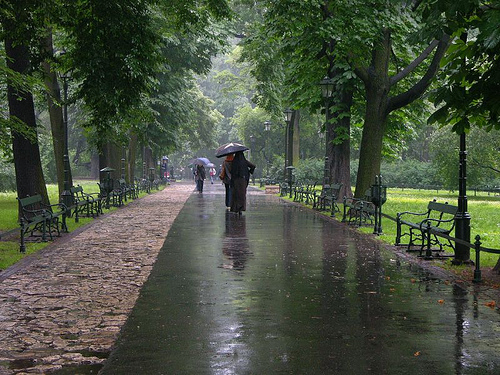 Unknown